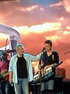 Singers Shlomo Artzi and Ben Artzi in a show in Karmiel September 2012